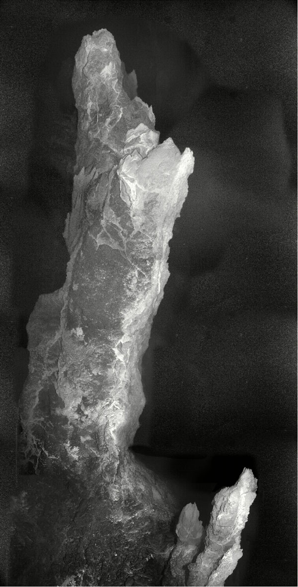 The carbonate structures at the Lost City Field include this chimney more than 30 feet in height. The white, sinuous spine is freshly deposited carbonate material. The top shows evidence of collapse and re-growth, as indicated by the small newly developed cone on its top.